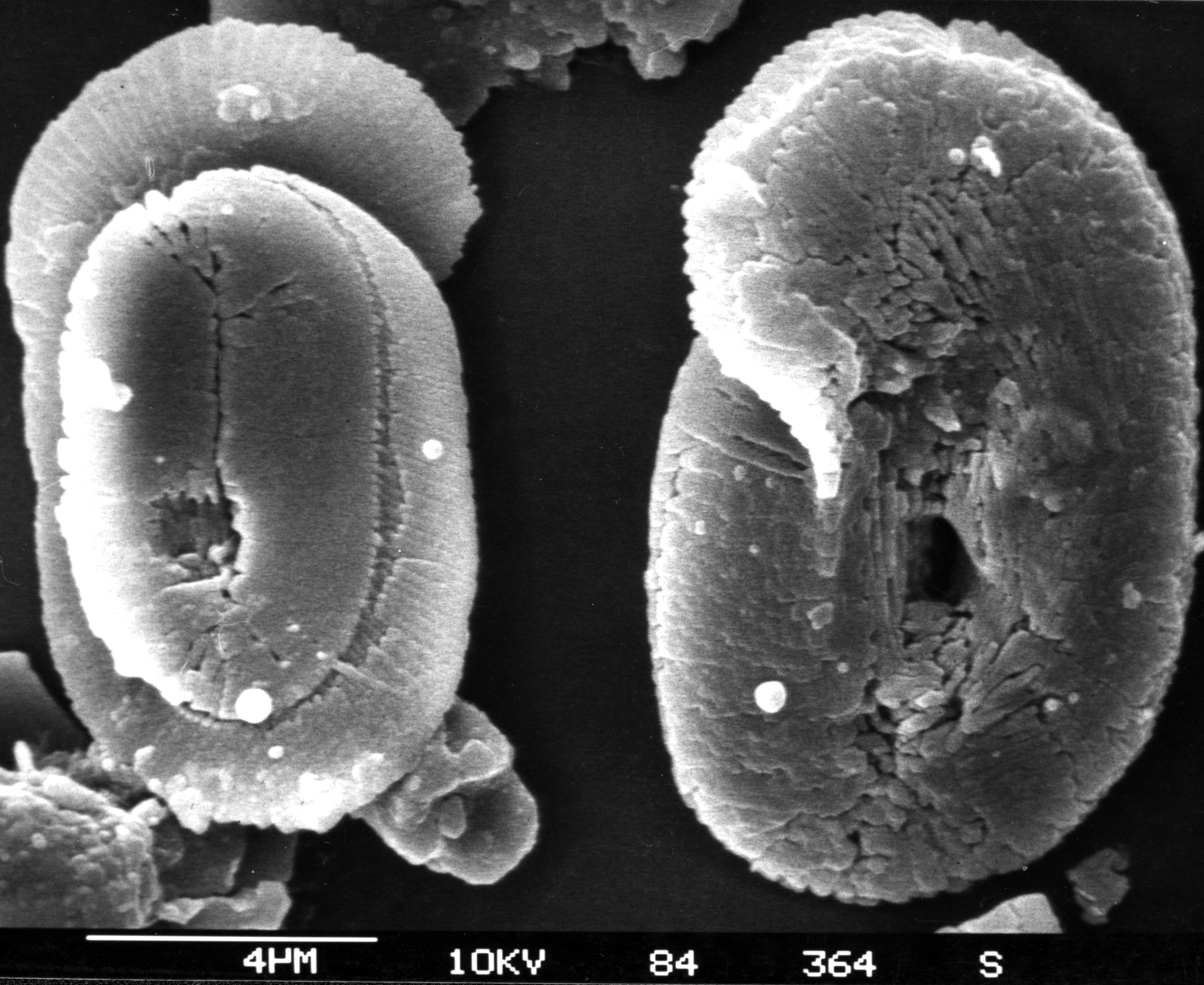 Microfossils from marine sediments - Coccolith Helicosphaera carteri